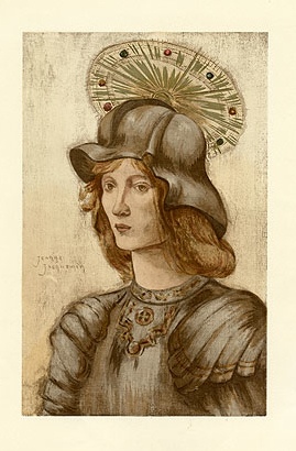 Saint Georges by Jeanne Jacquemin, lithographic print from L'Estampe moderne, vol. I, Paris, F. Champenois.